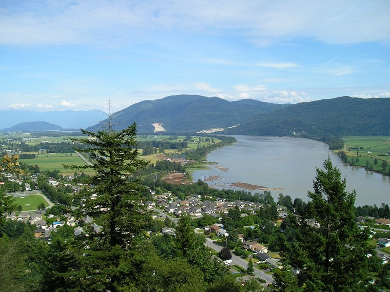 View looking east on the Fraser River, near Mission, BC. The Mission "suburb" of Hatzic is in the foreground. Viewpoint is the cliff at Westminster Abbey.